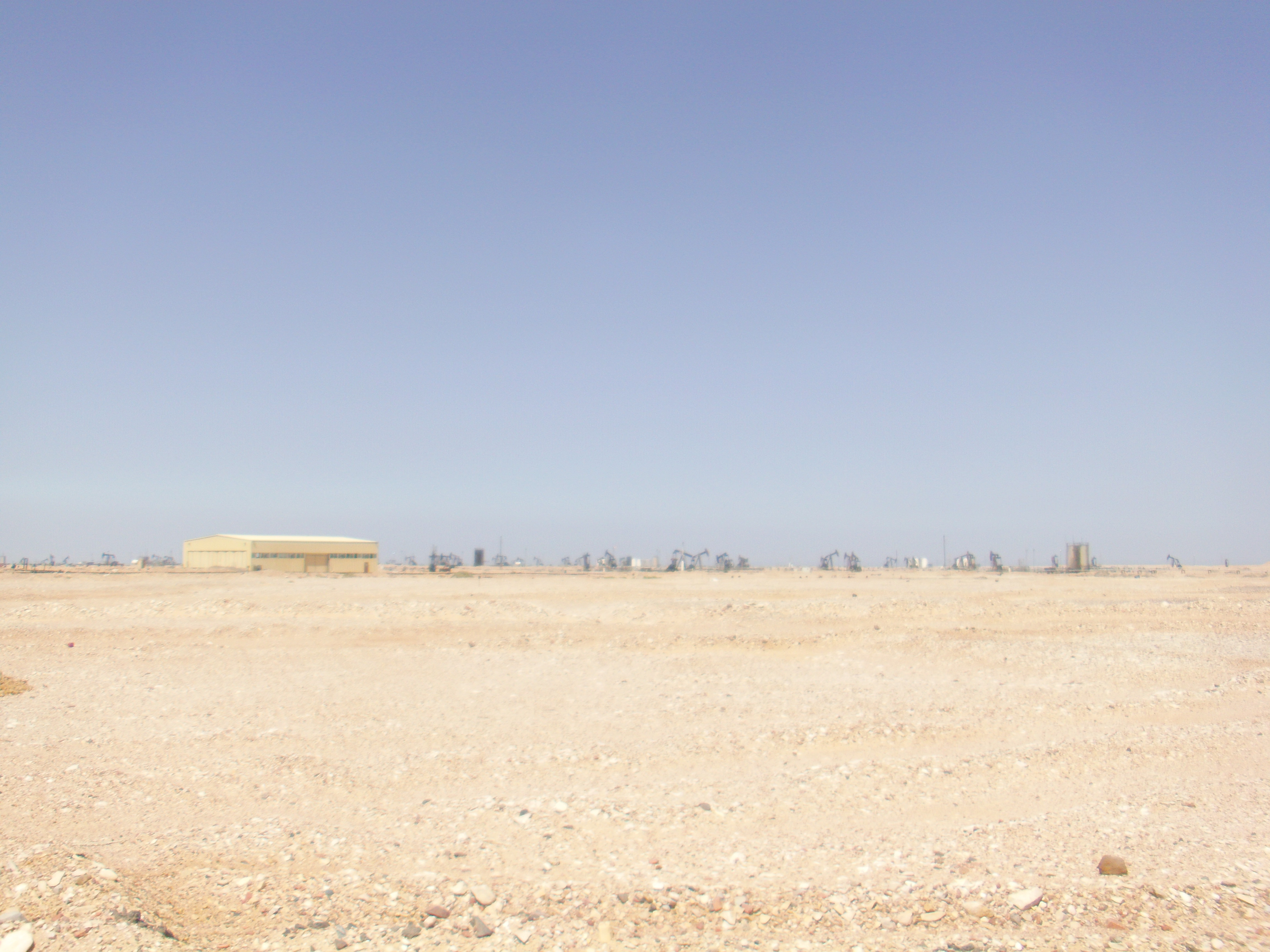 A huge land full of jack pumps for petroleum in Ras Ghareb, Red Sea , Egypt